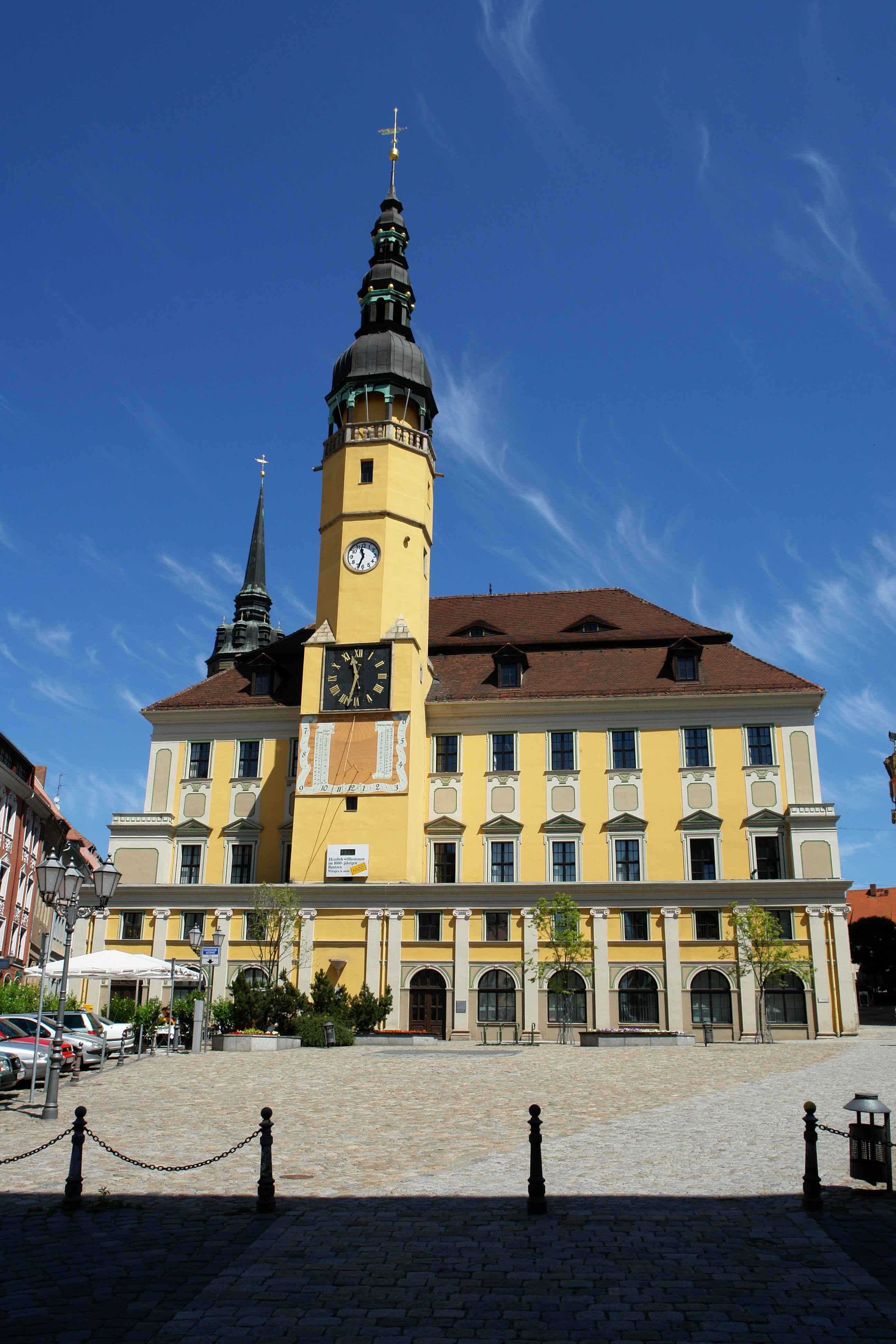 City hall in Bautzen.